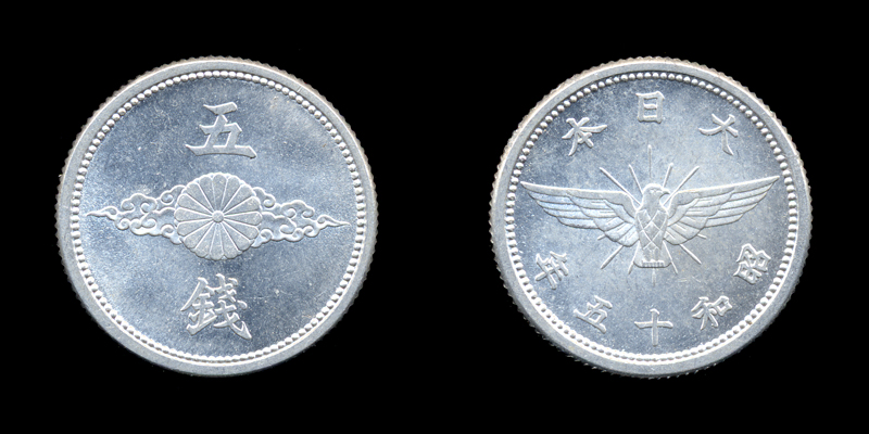 5sen-S15